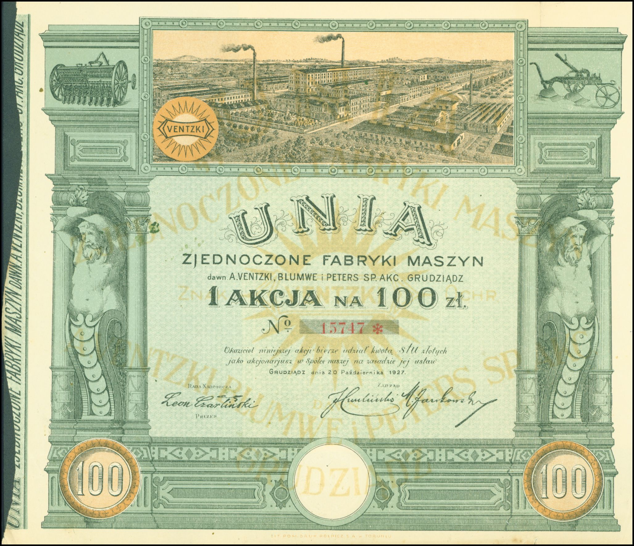 Share of Unia Zjednoczone Fabryki Maszyn, issued 20. October 1927